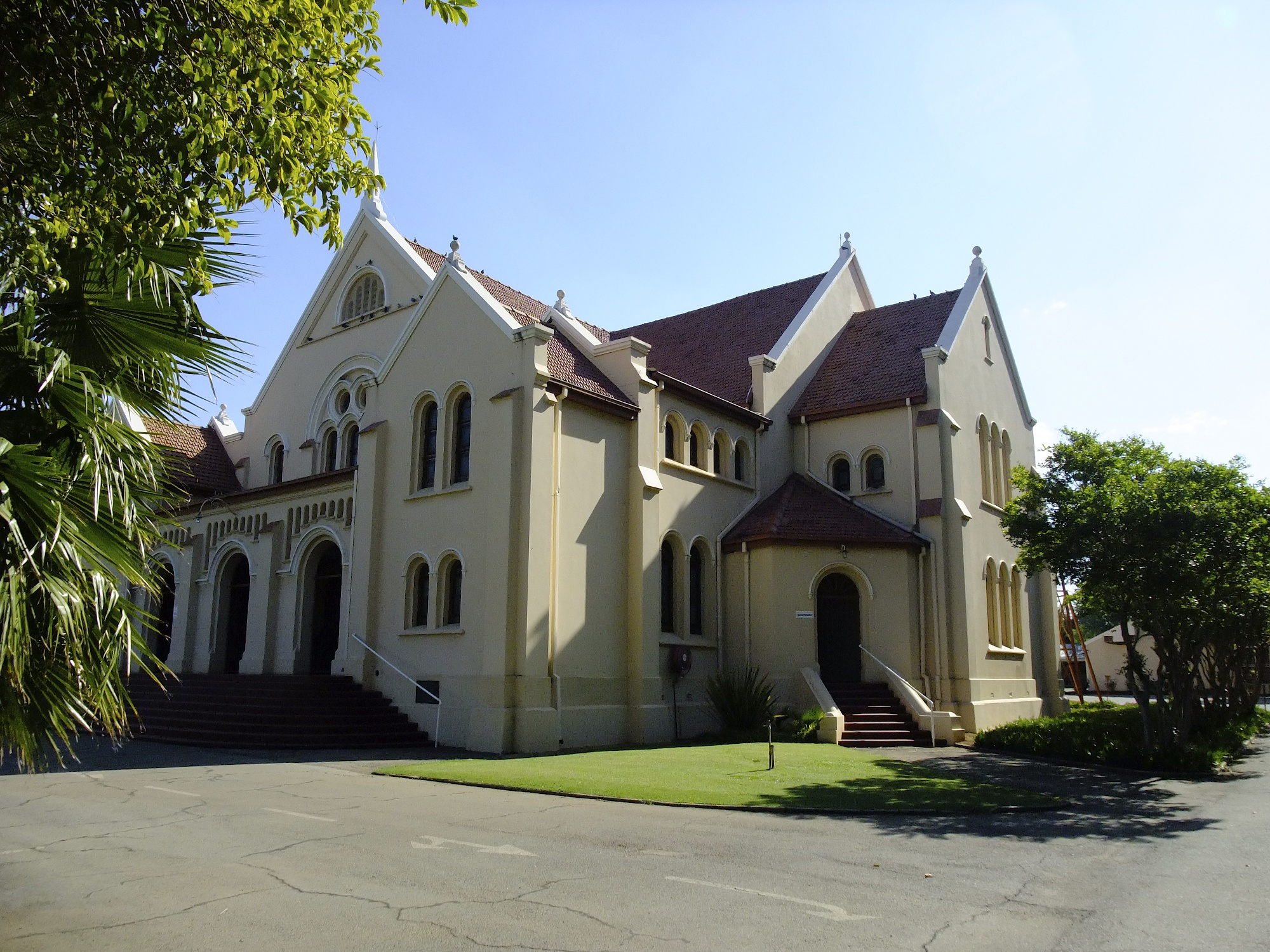 Dutch Reformed Church, Church Street, Potchefstroom (new street name: Walter Sisulu Ave) This media shows a South African Protected Site with SAHRA file reference 9/2/256/0010.